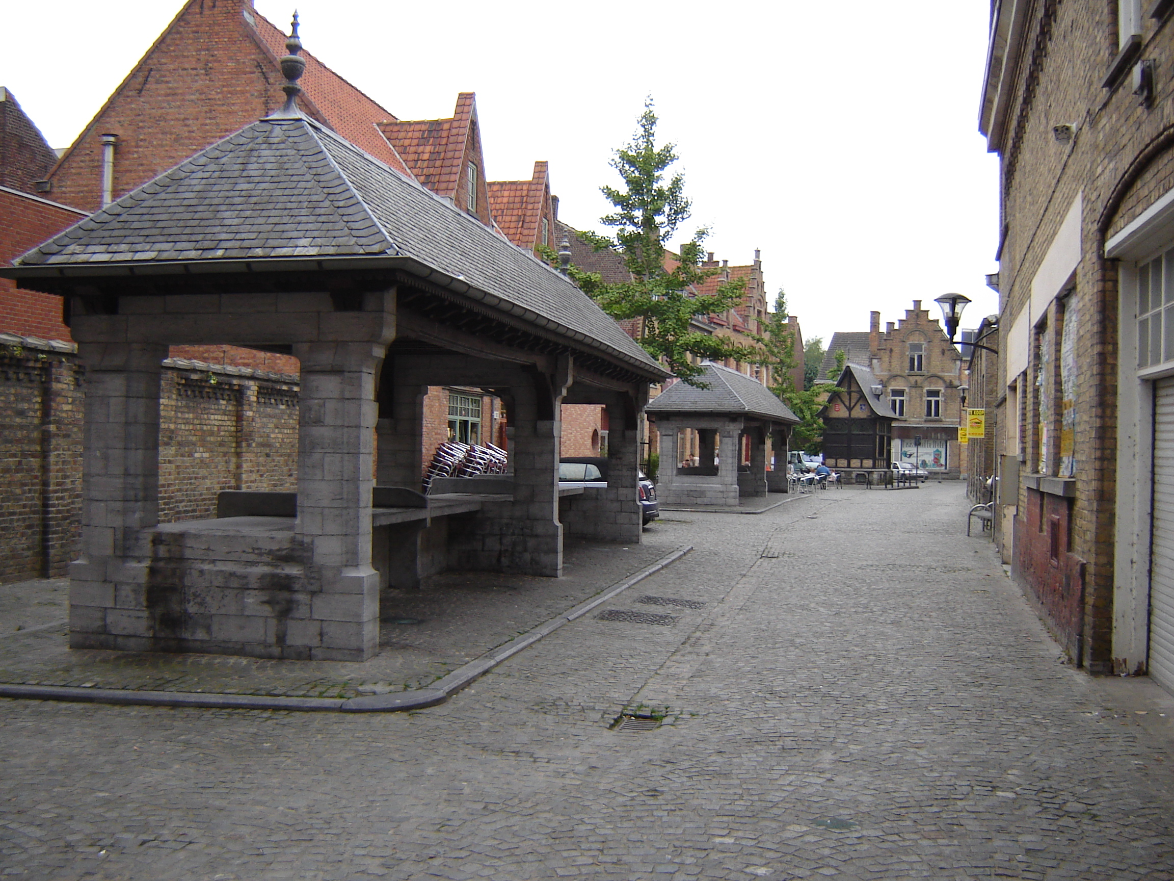 Vismarkt (Fish Market) square in Ieper, West Flanders, Belgium